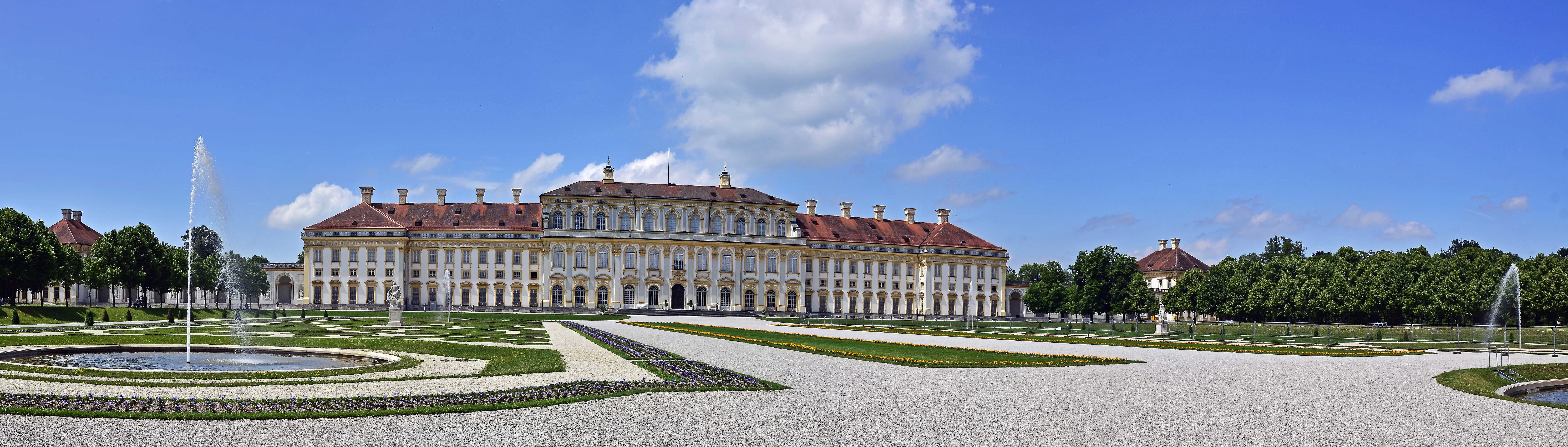 Oberschleissheim New Castle, Panorama, Parque Side, East